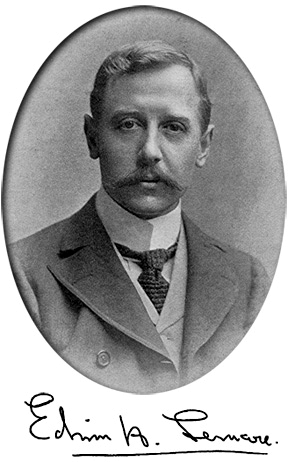 Edwin H. Lemare (1865-1934) was an English organist, composer and music editor.